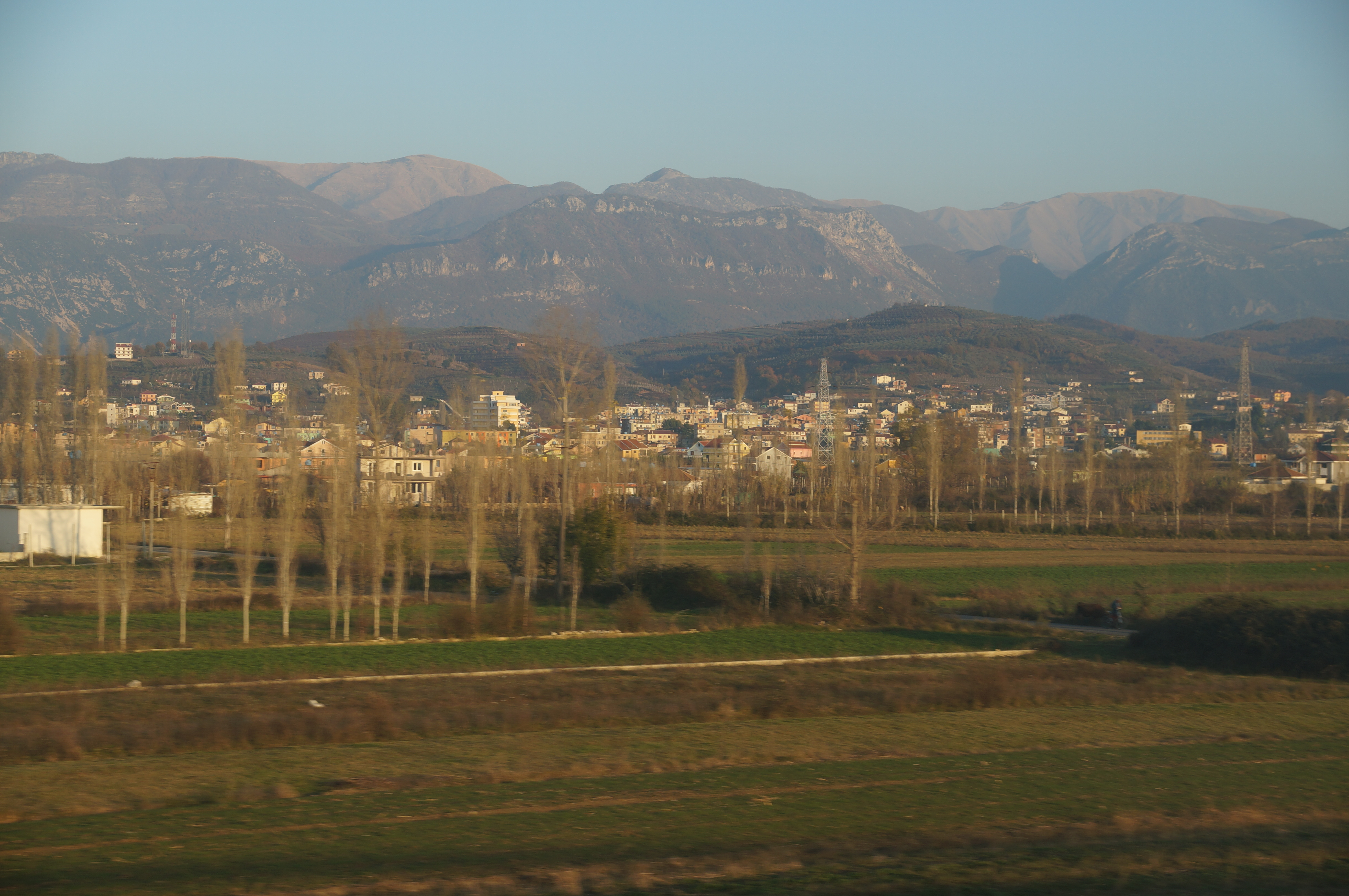 Mamurras and surrounding mountains